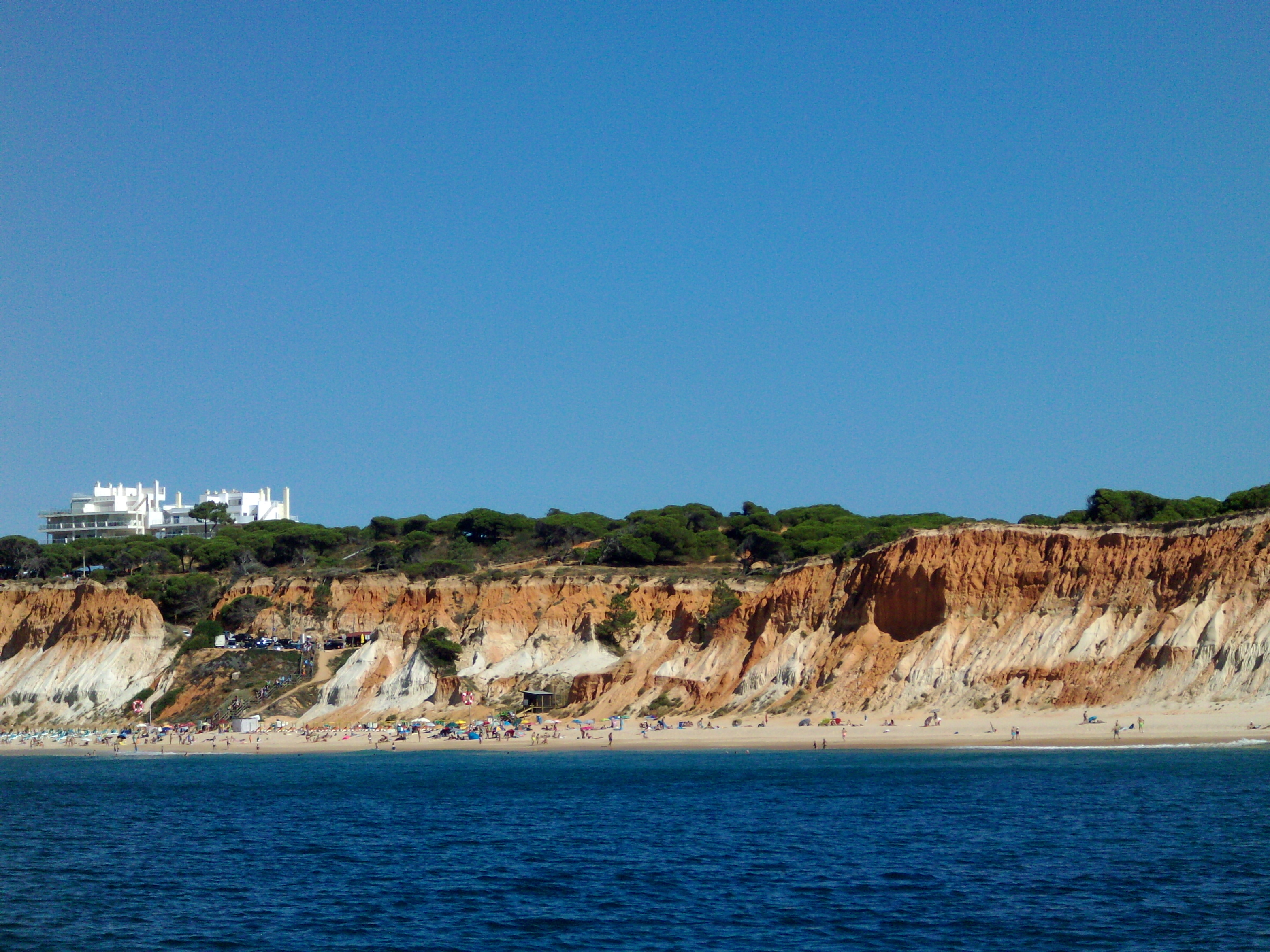 Falesia Beach seen from sea